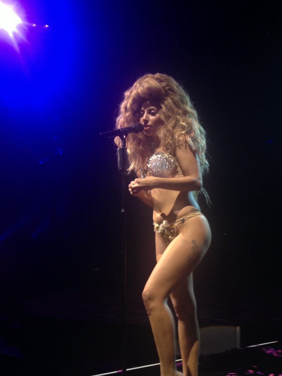 May 4 - Fort Lauderdale «artRAVE: The ARTPOP Ball»